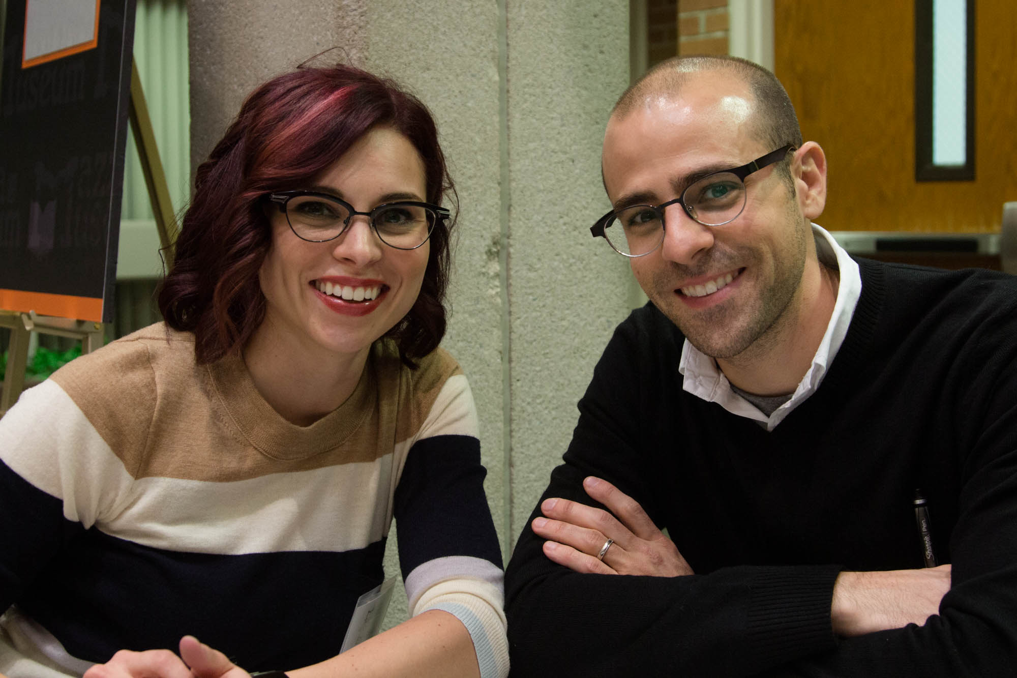 Erin E. Stead and husband Philip Stead at the 2012 Mazza Fall Conference in Findlay, OH.